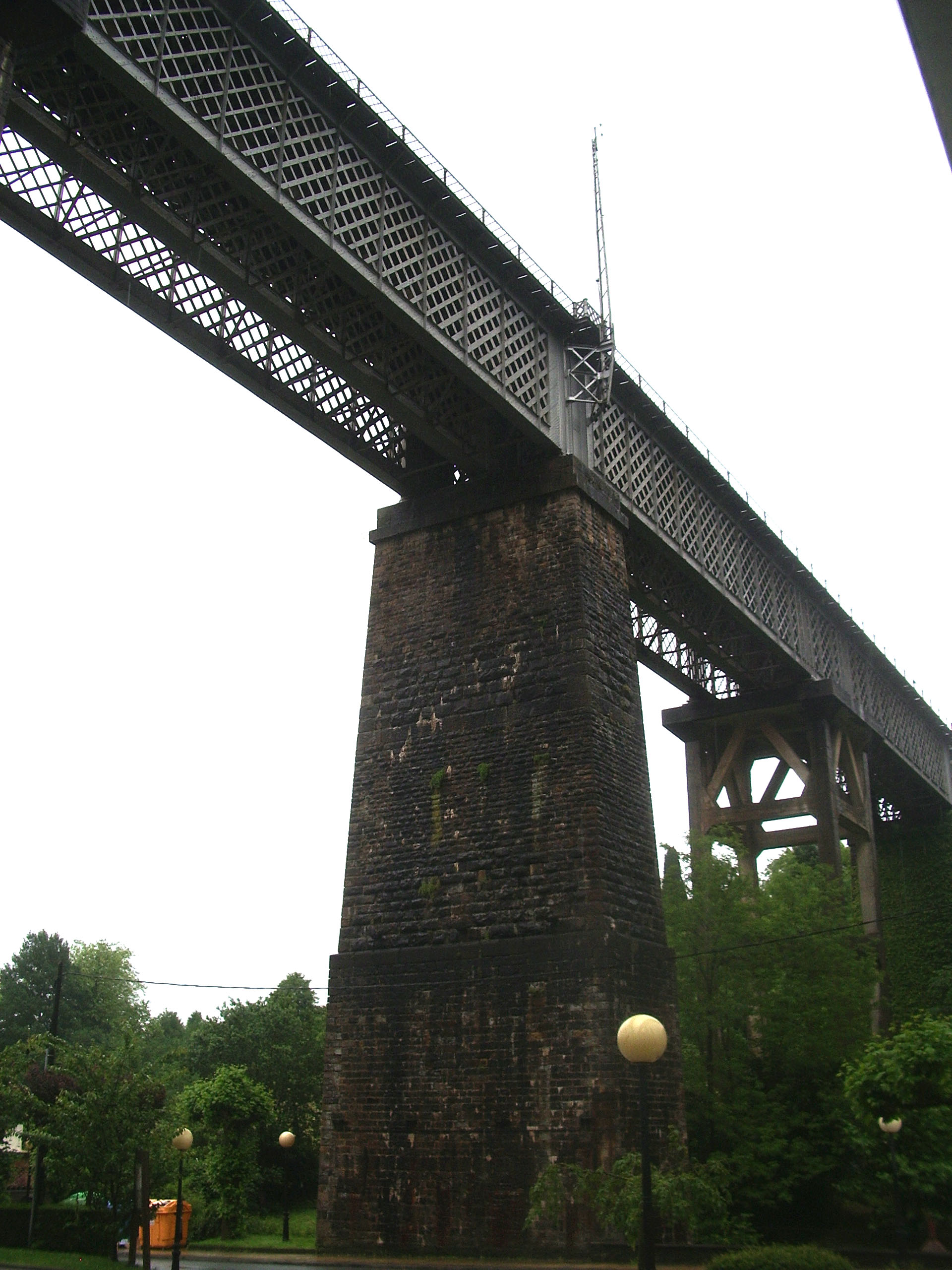 Ormaiztegi train viaduct (Ormaiztegi, Guipuscoa, Basque Country)